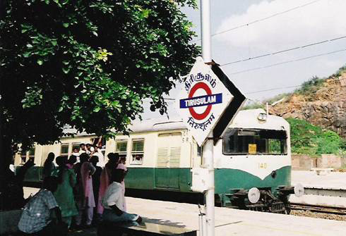 Taken by Alan Williams and used in my London Underground Tube Diary